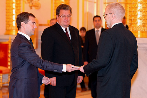 THE KREMLIN, MOSCOW. Ambassador of the Republic of Finland Matti Anttonen presents his letter of credentials to the President of Russia.